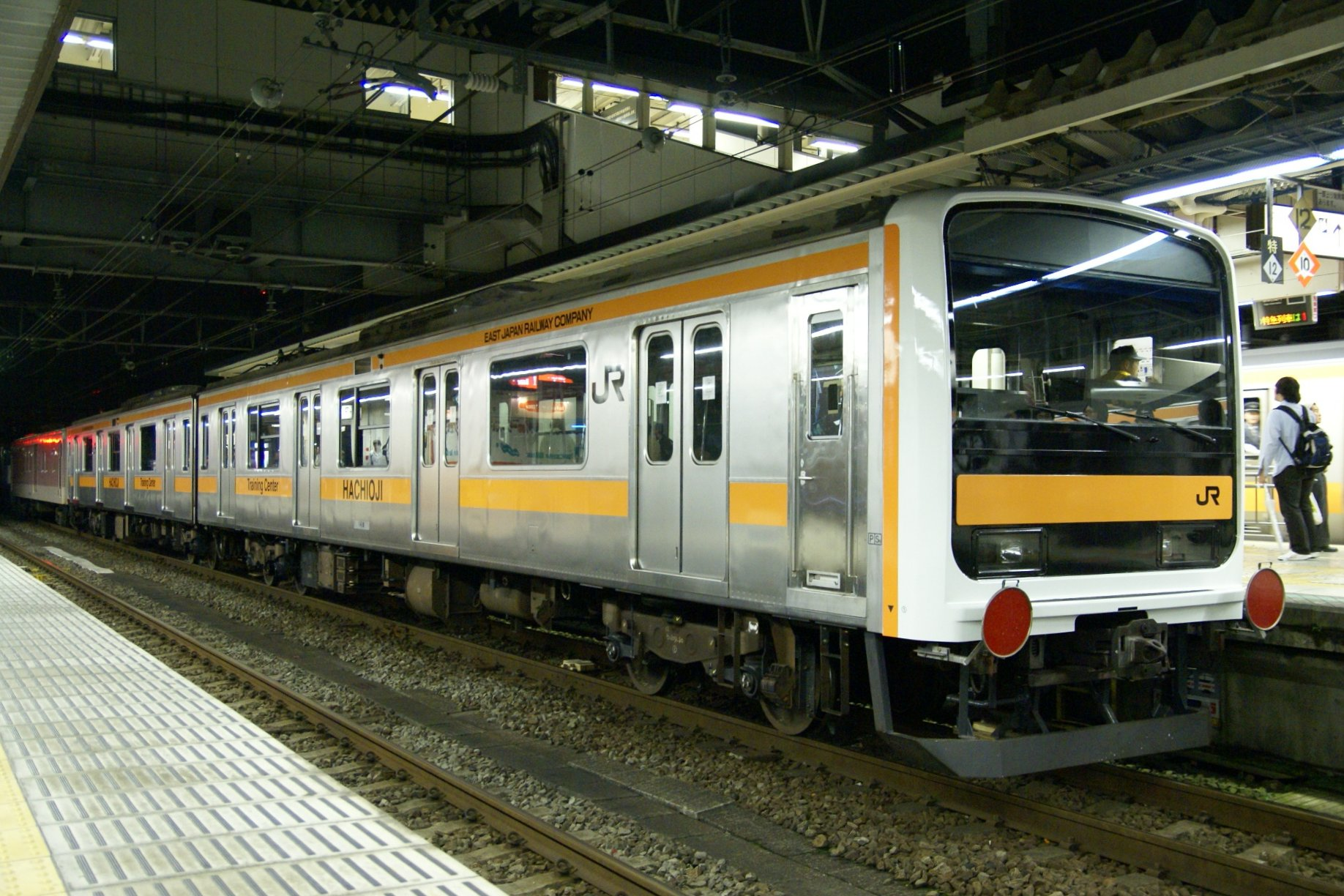 Former JR East 209 series 2-car training set at Hachioji Station en route from Nagano Works to its new home at Shin-Akitsu